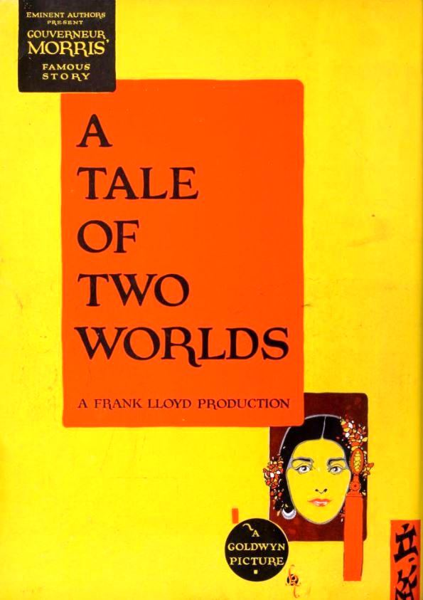 Advertisement for the American drama film A Tale of Two Worlds (1921), from the insert after page 10 of the April 2, 1921 Exhibitors Herald.